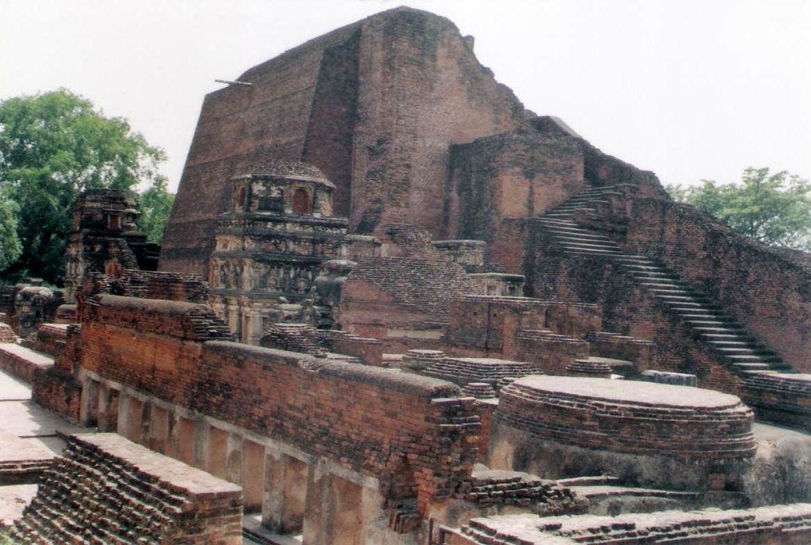 Stupa of Sariputra at ancient Nalanda university. This monument (Nalanda) is a UNESCO World Heritage site.